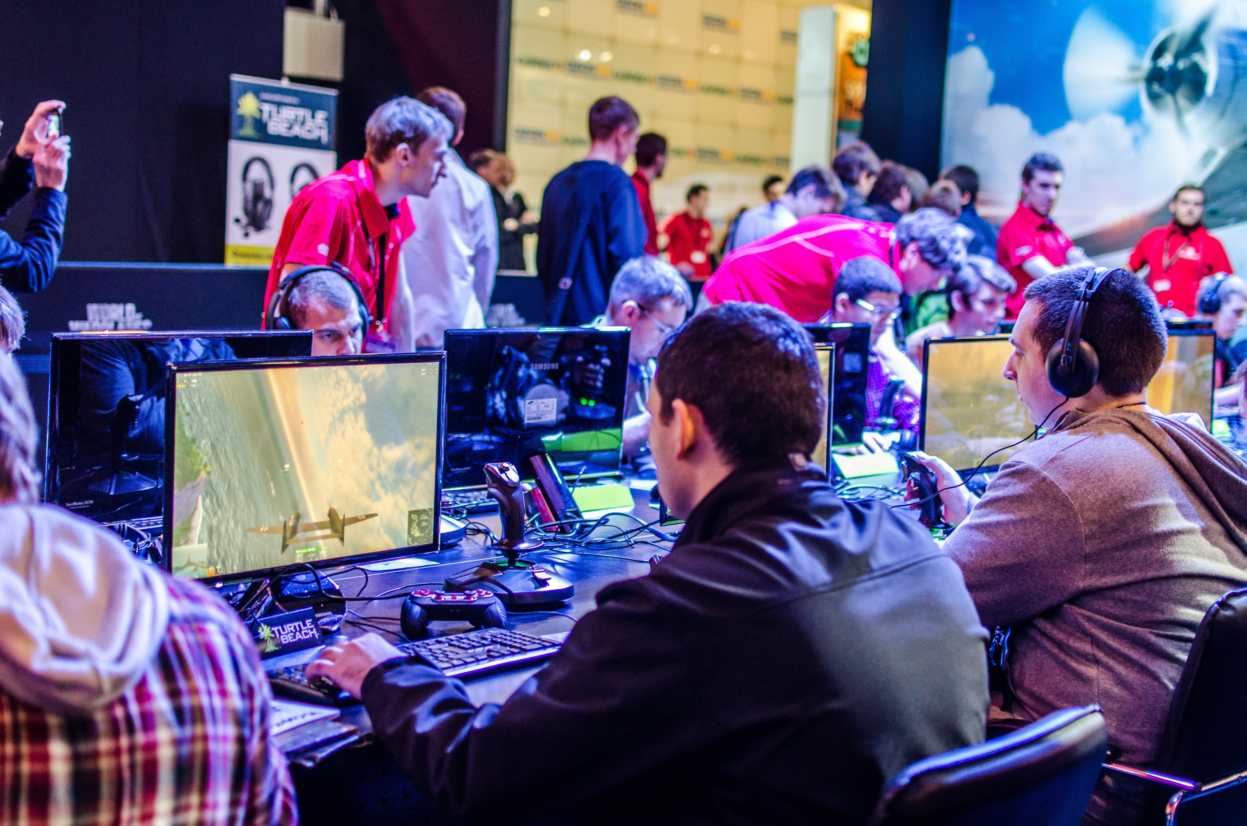 Gamers at Igromir 2012